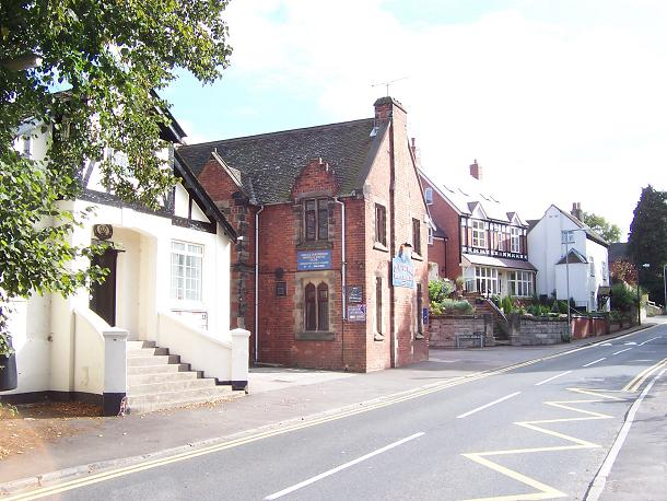 Great Haywood, Staffordshire. Some of the buildings on the main road. On the left is the war memorial hall.